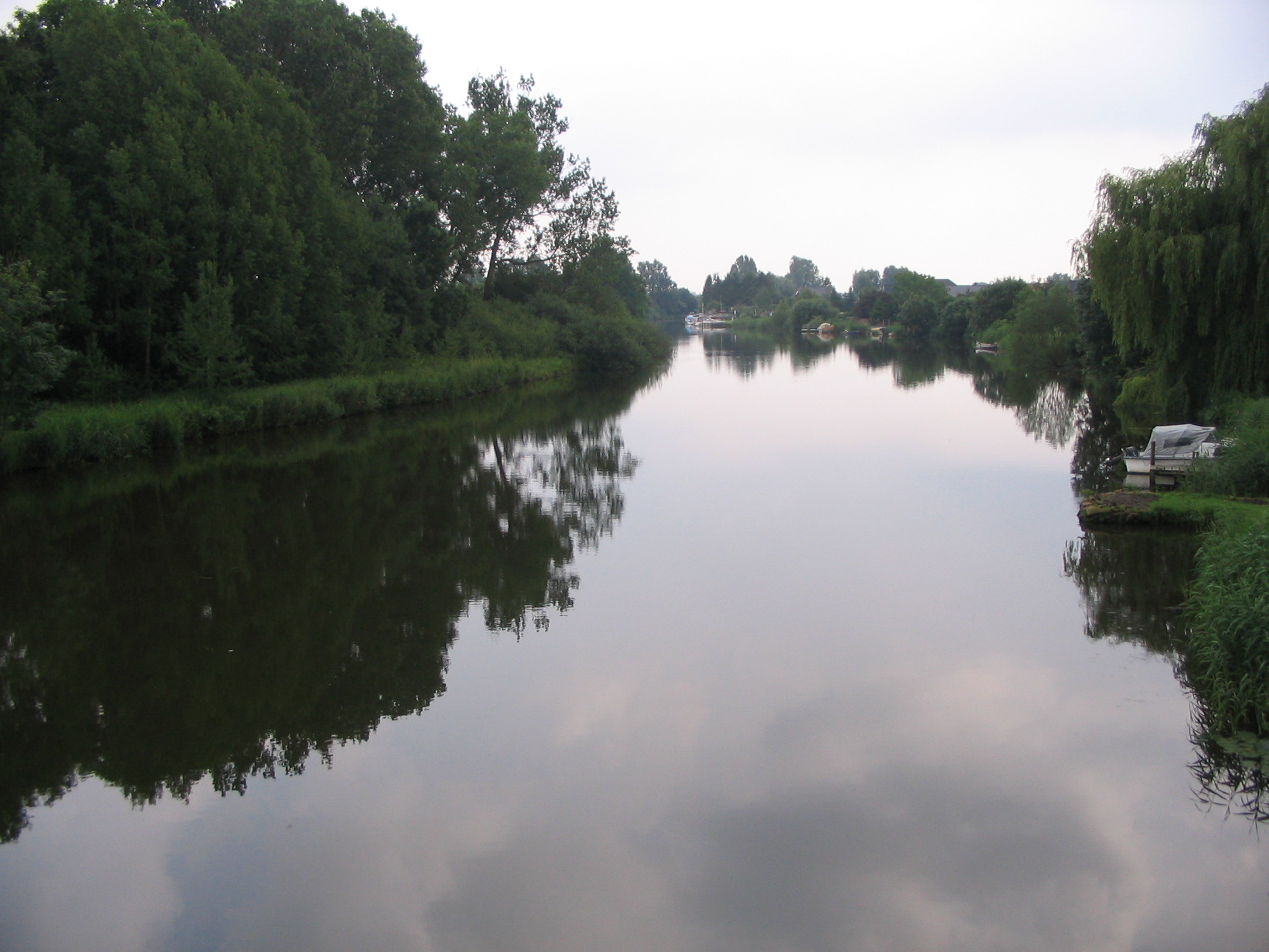 The Eider at Nübbel